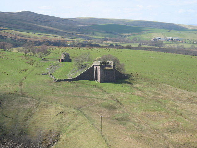 Stainmore Railway - Belah Viaduct View SW of remains of Belah Viaduct and signal box.